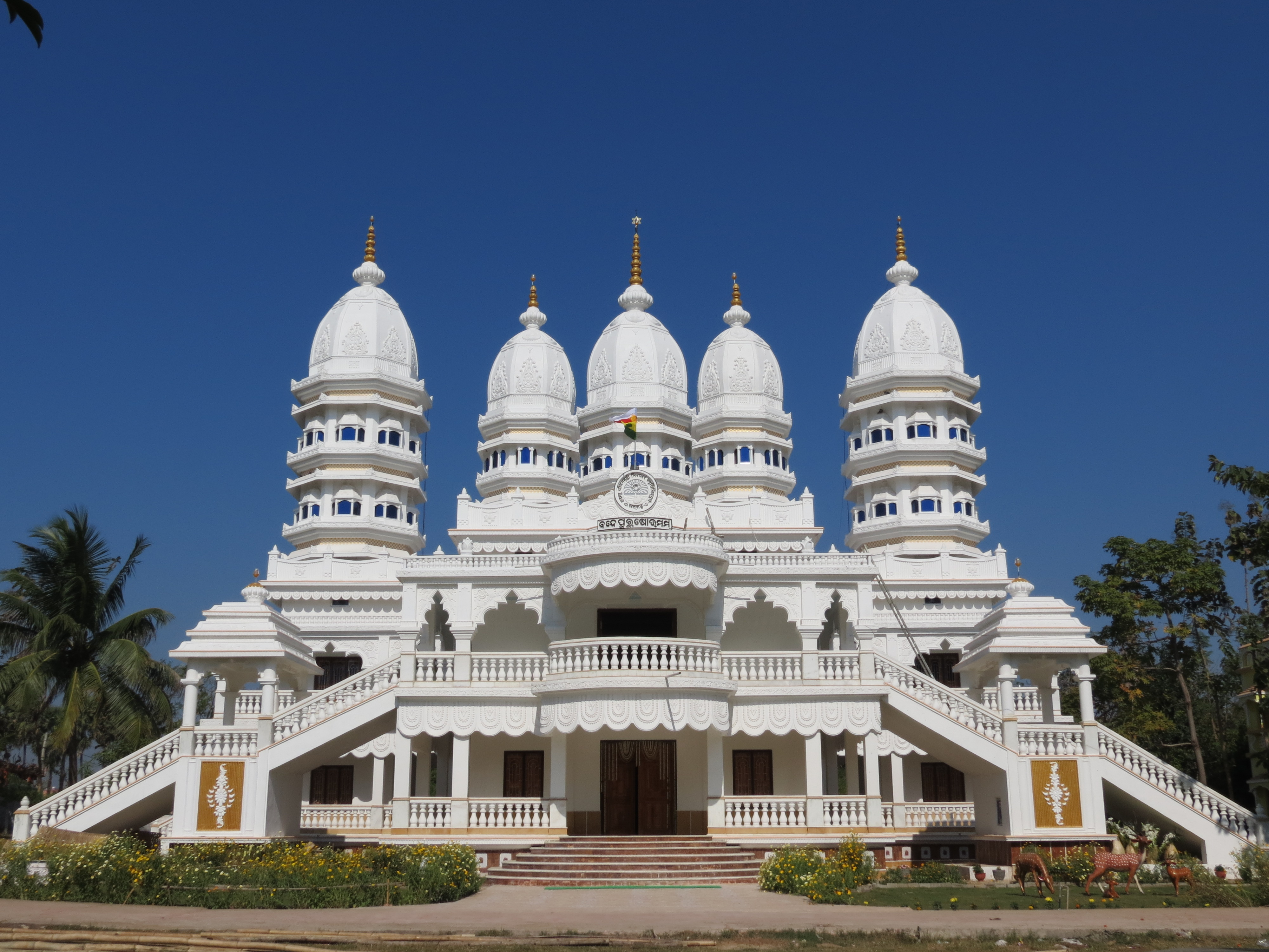 Sri Mandir at Satsang Vihar Anandapur, Keonjhar, Odisha, inaugurated on 15th February 2020.